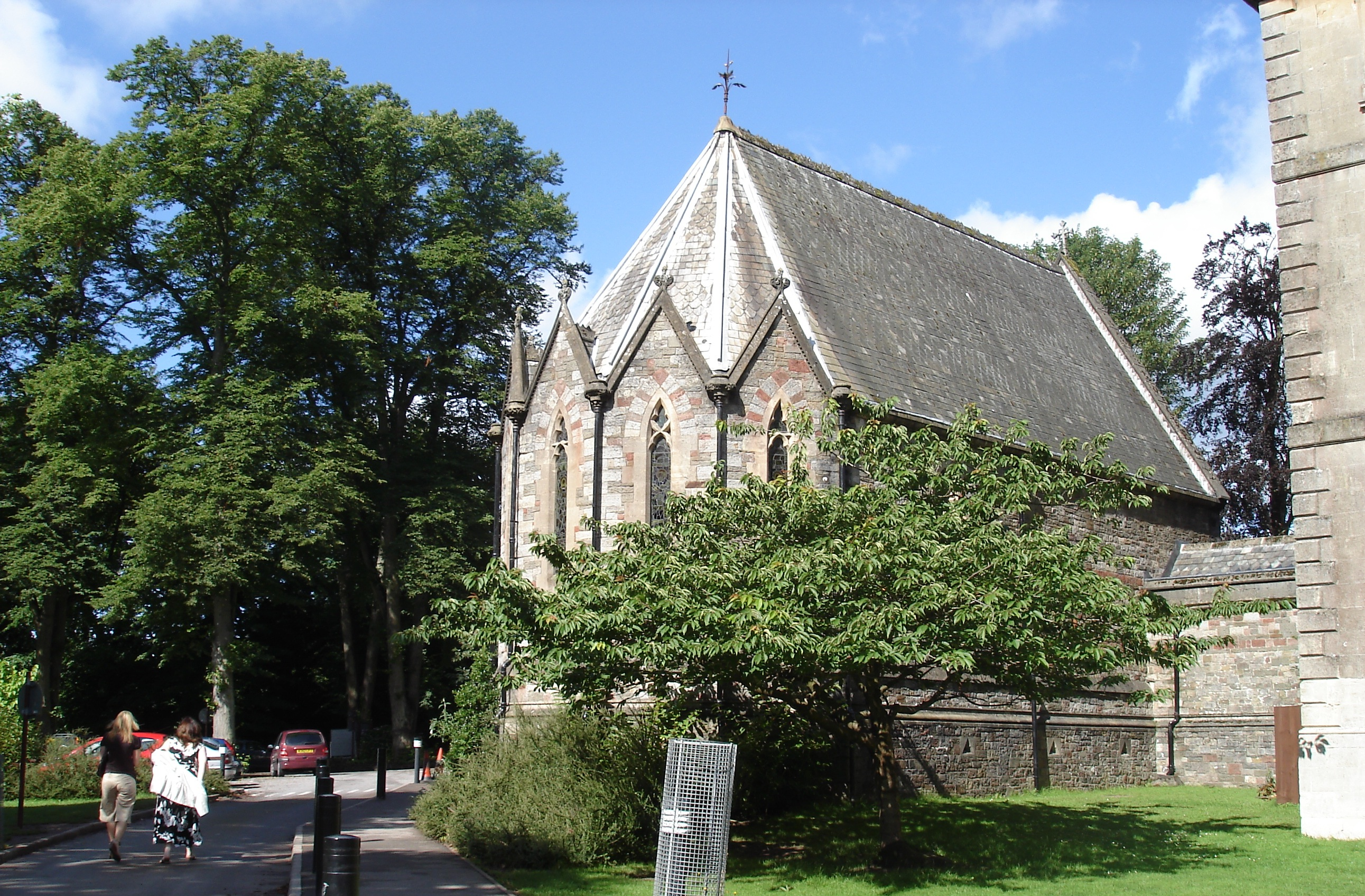 19th-century Gothic revival chapel of The Cathedral School, Llandaff, Cardiff, Wales